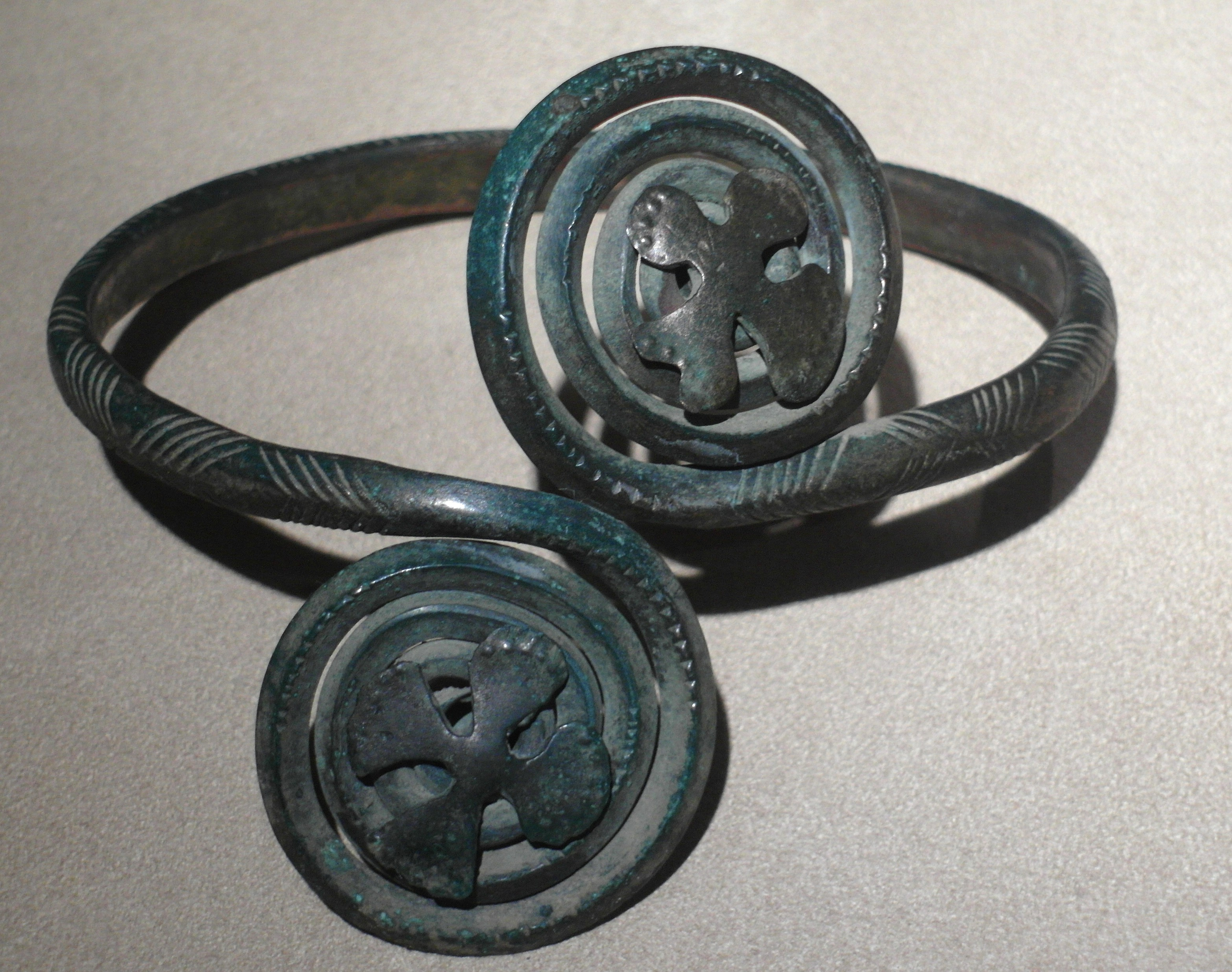 Schoulder straps of Lusatian culture from Krobów Treasury, Poland